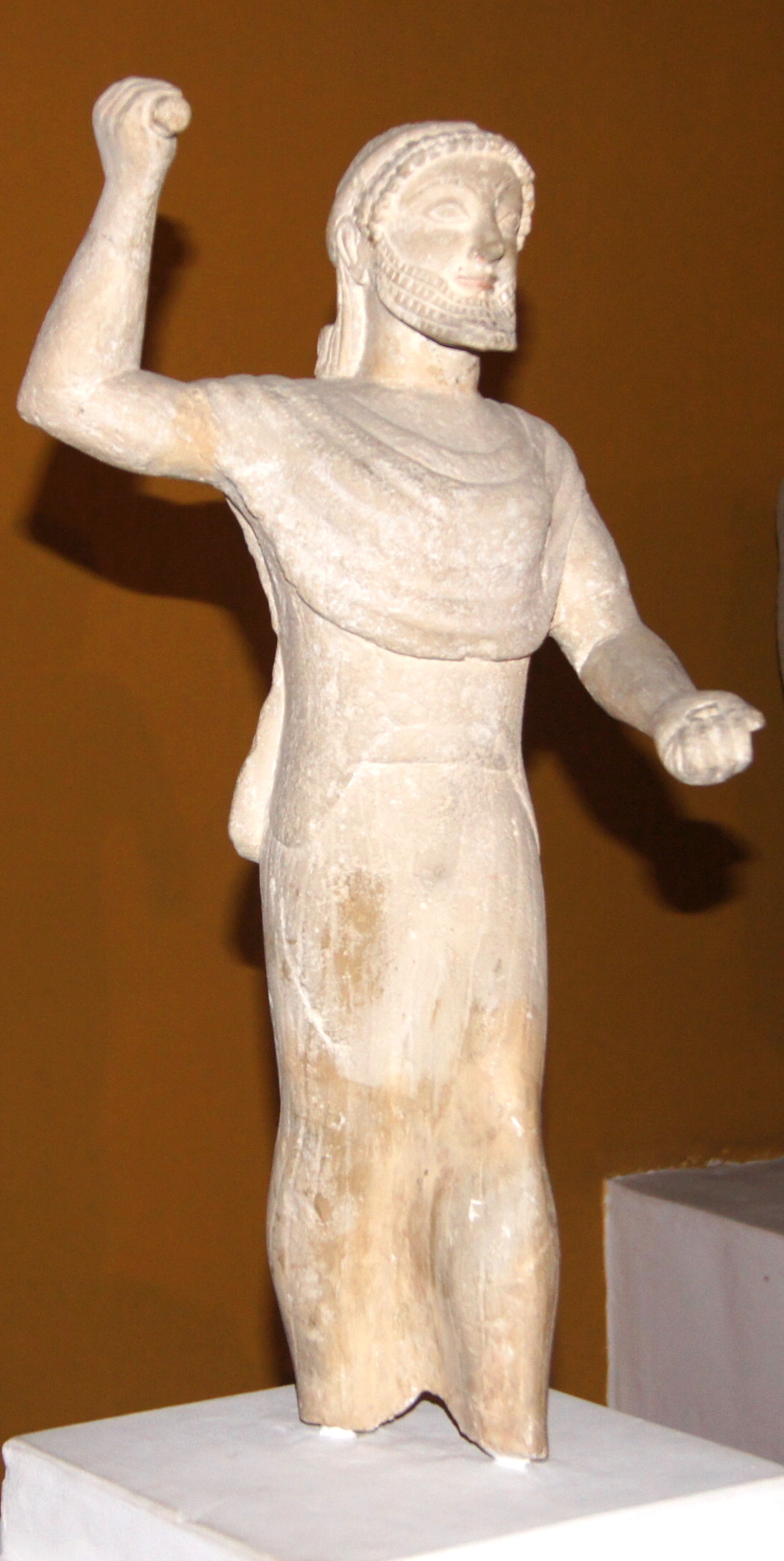 Kition, Zeus Keraunios, severe classical style, 500-480 BC